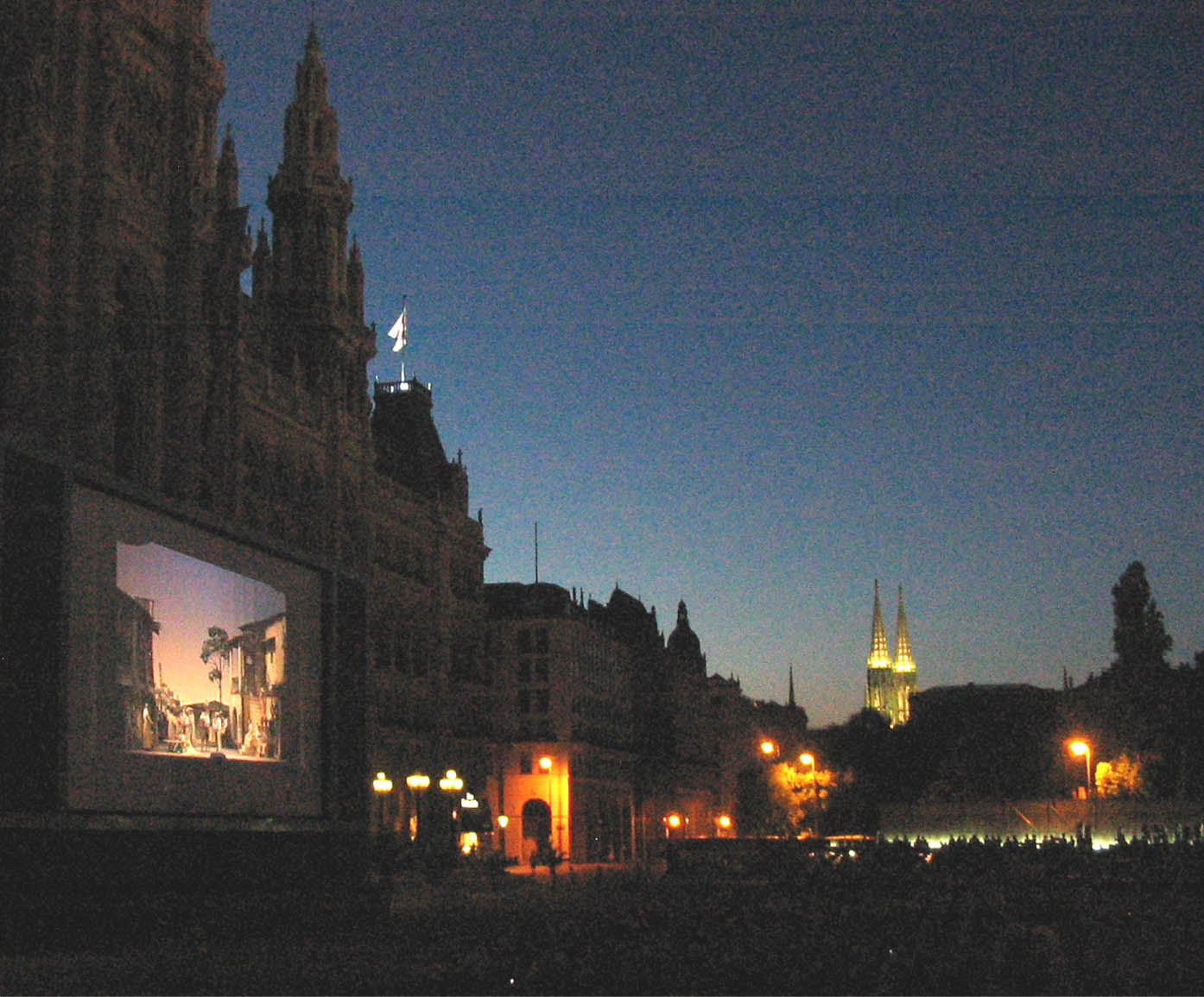 "Rathausplatz Film Festival" (June, August). Each evening, movies on music are shown open air, free of charge, in HD quality on a 20x11,5m screen to up to 6000 spectators. This evening's movie showed Donizetti's L'Elisir d'Amore, directed by Otto Schenk at the Wiener Staatsoper, with Anna Netrebko, Rolando Villazon, Ildebrando D'Arcangelo, Leo Nucci. Conductor: Alfred Eschwé. 2005.